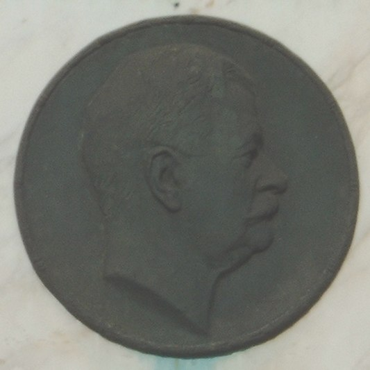 Ernst Bassermann 1917